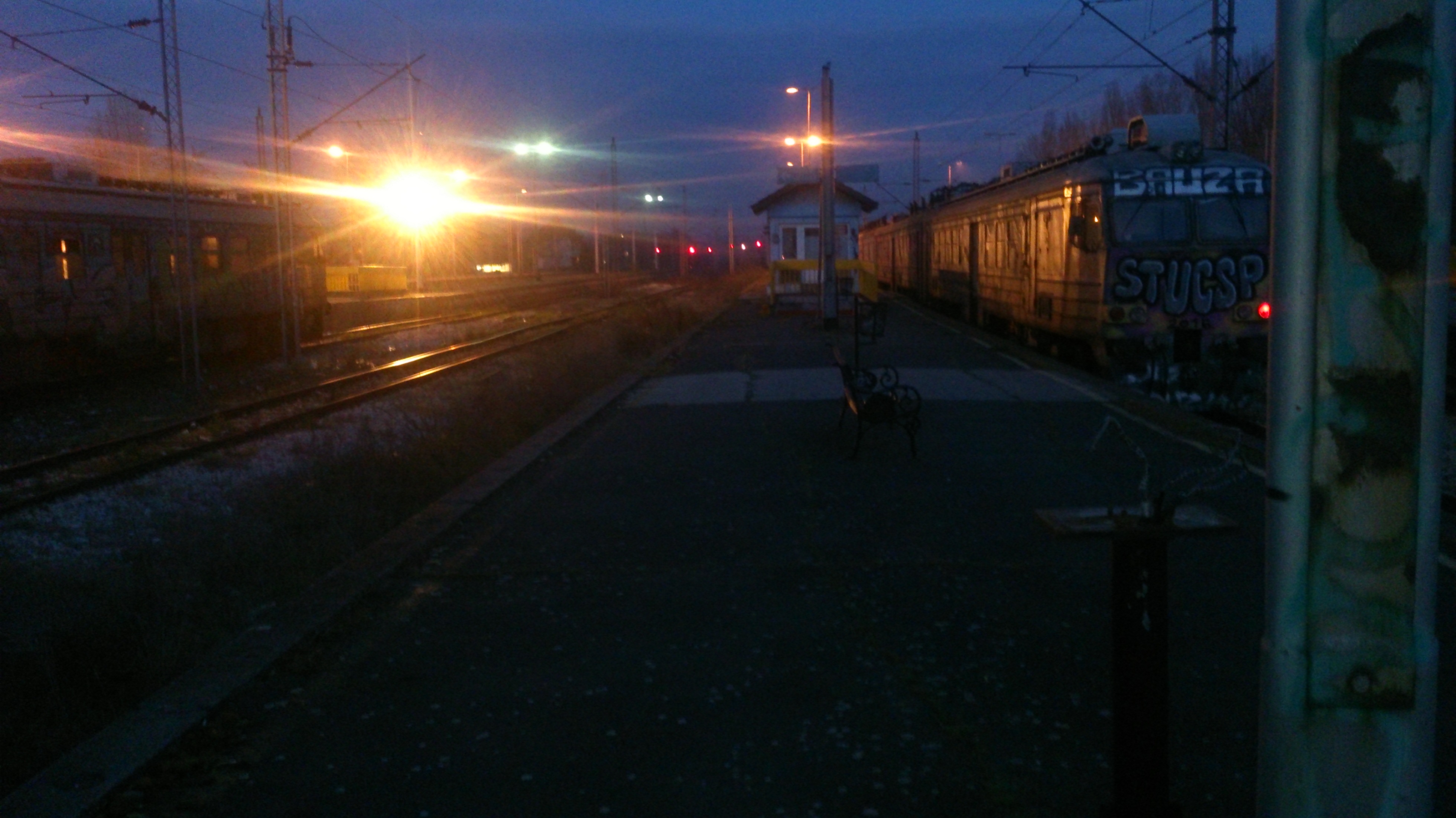 Zemun railway station at night